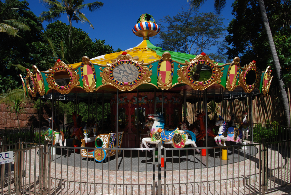 Carousel for the kids – Fun Zone